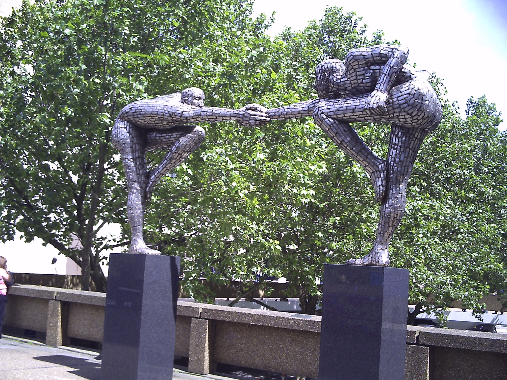 Sculpture outside the Main Entrance of St. Thomas' Hospital, Lambeth, London, UK. To quote the nearby plaque: " 'Cross the Divide' by Rick Kirby "Unveiled by Her Royal Highness The Princess Margaret, Countess of Snowdon on 25th September 2000 "This sculpture was commissioned by the Guy's and St. Thomas' Charitable Foundation in association with de Putron Art Consultants" As it is permanently displayed in a public place in the UK, FoP applies.